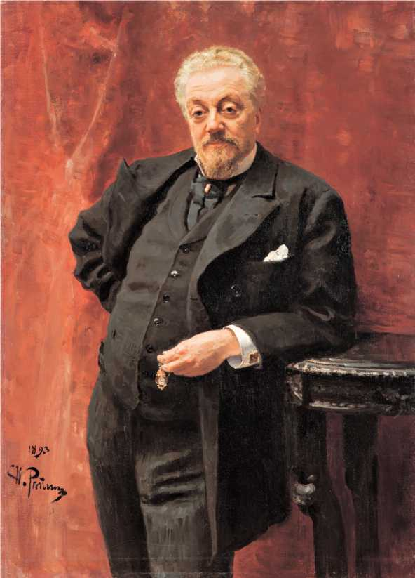 Portrait of Vladimir Gerard